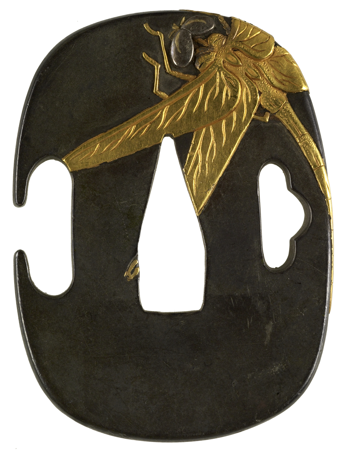 The body of a dragonfly is at the upper right of the tsuba. The wing's on the dragonfly's right extend over the top and appear on the reverse. The tail runs along the right edge. Dragonflies are a symbol of autumn. There is also an ancient tradition of calling Japan "Dragonfly Island" because the legendary first emperor, Jimmu, thought that when viewed from the top of a mountain the islands had the shape of a dragonfly.